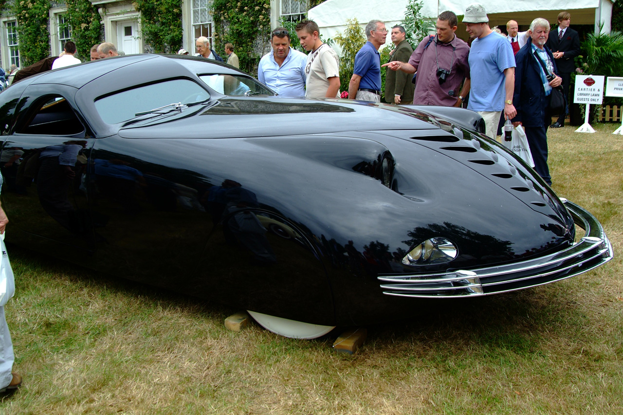 I took this picture myself at the Goodwood Festival of Speed 2006 event